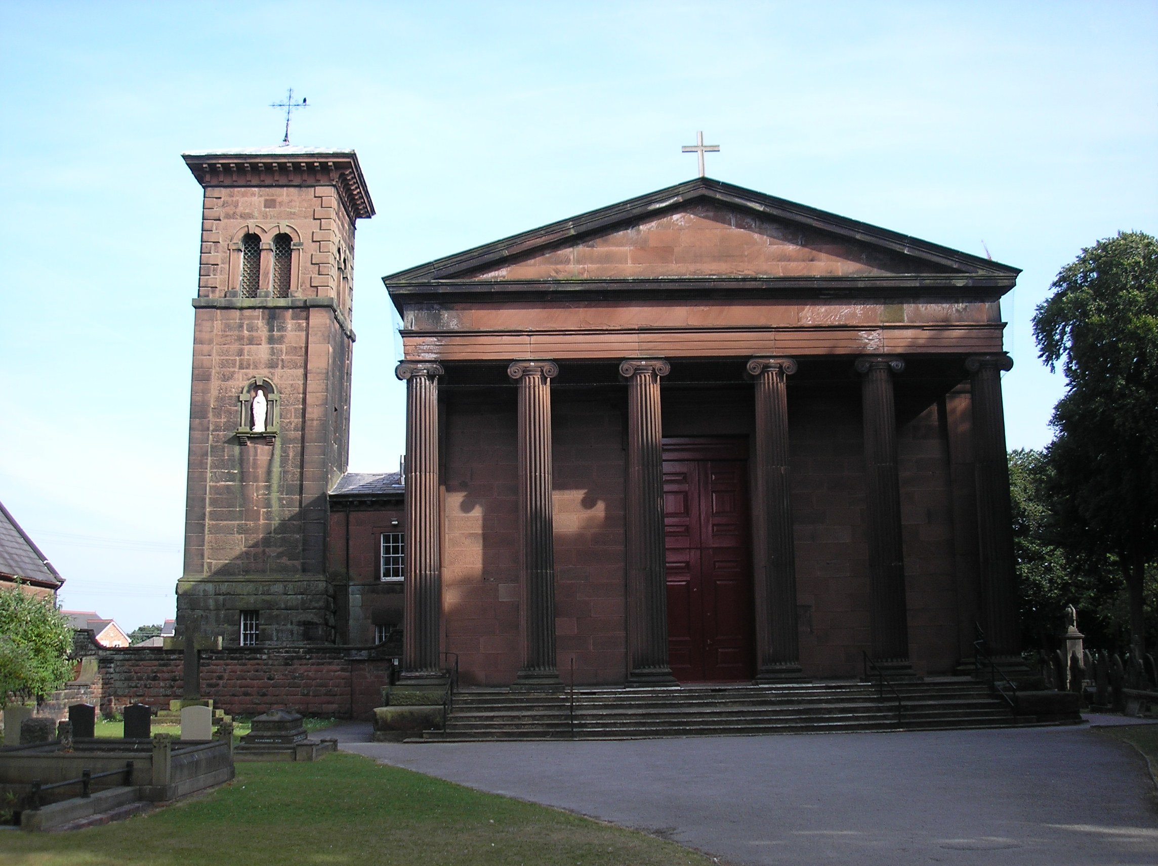 Roman Catholic church of St Bartholomew, Warrington Road, Rainhill Stoops, Merseyside, seen from the northwest